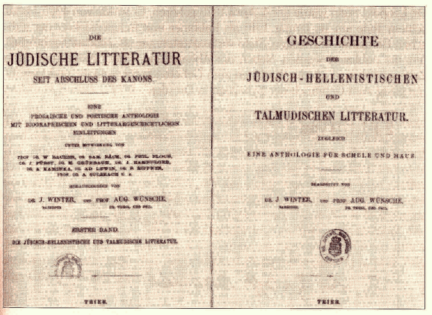 Image:Jakob Winter und August Wünsche — Die jüdische Literatur seit Abschluss des Kanons - Eine prosaische und poetische Anthologie mit biographischen und litteraturgeschichtlichen Einleitungen, Trier, 1894